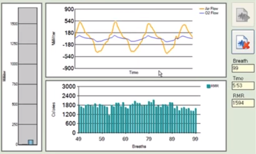 Screenshot of BodyGem Analyzer software